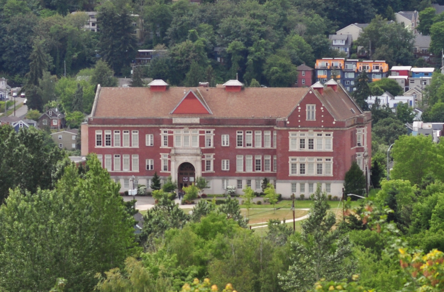 Northwest African American Museum from Mount Baker Ridge Viewpoint, Seattle, Washington, U.S. Beacon Hill in background.